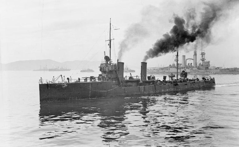 HMS ARNO at Mudros, with HMS SWIFTSURE in the background, 1915.